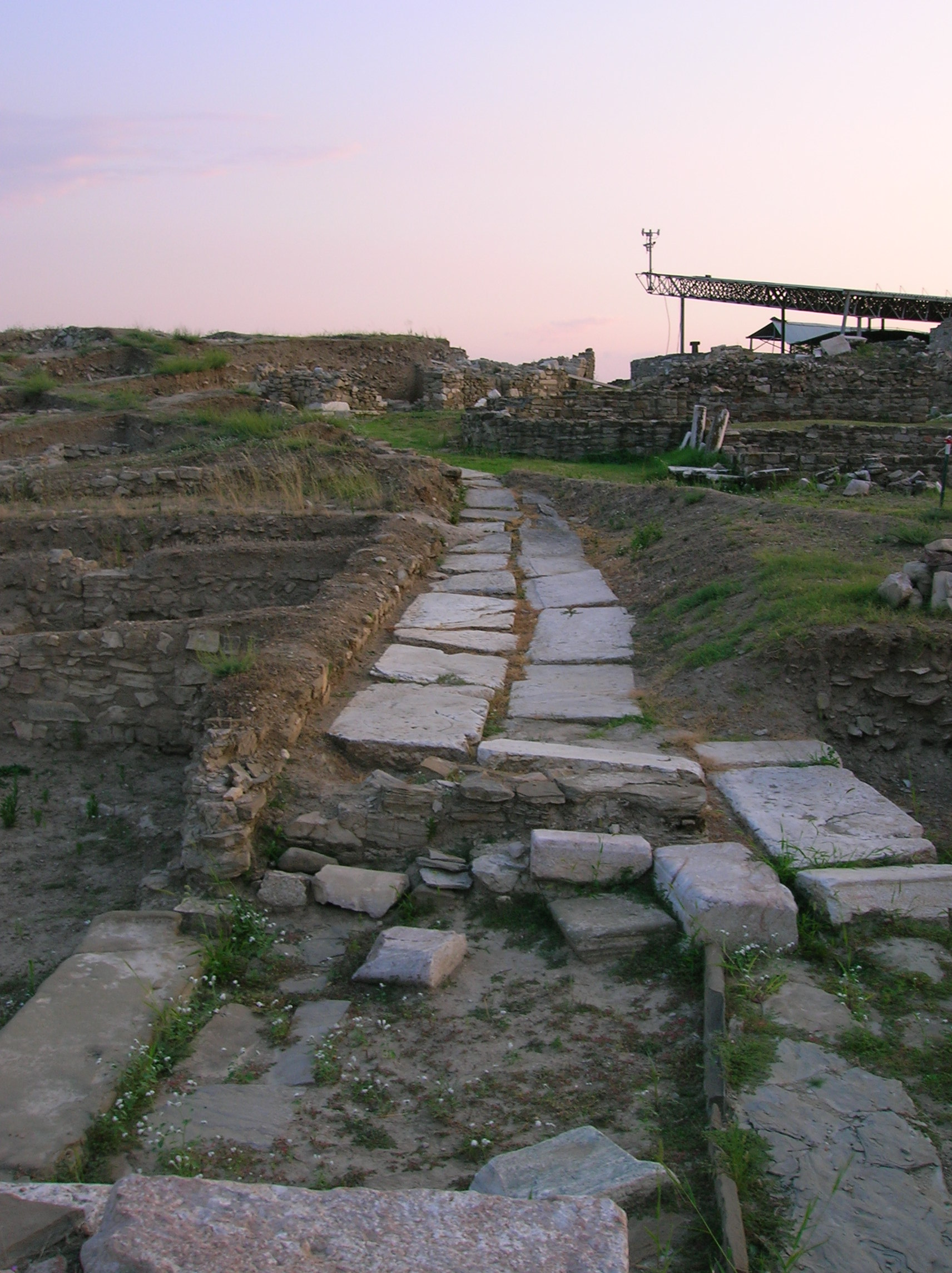 Street remains at archeological site Stobi